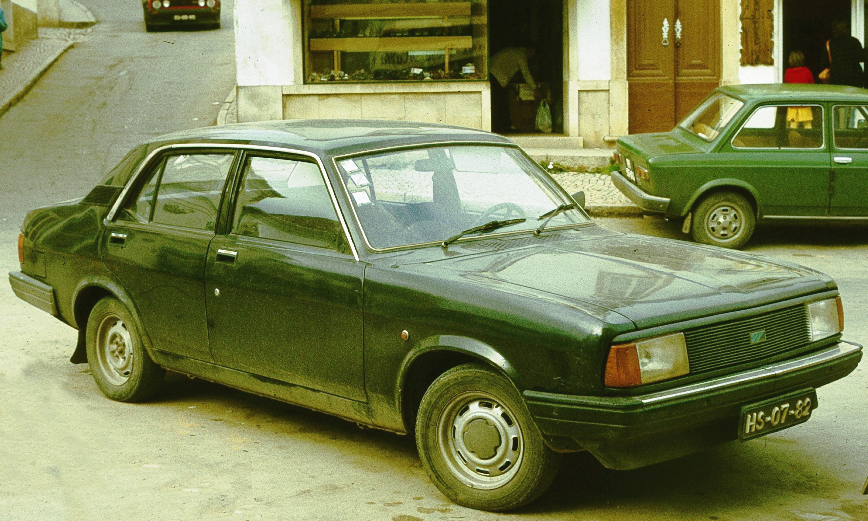 A small number of Morris Itals were assembled in Portugal for the domestic market there.